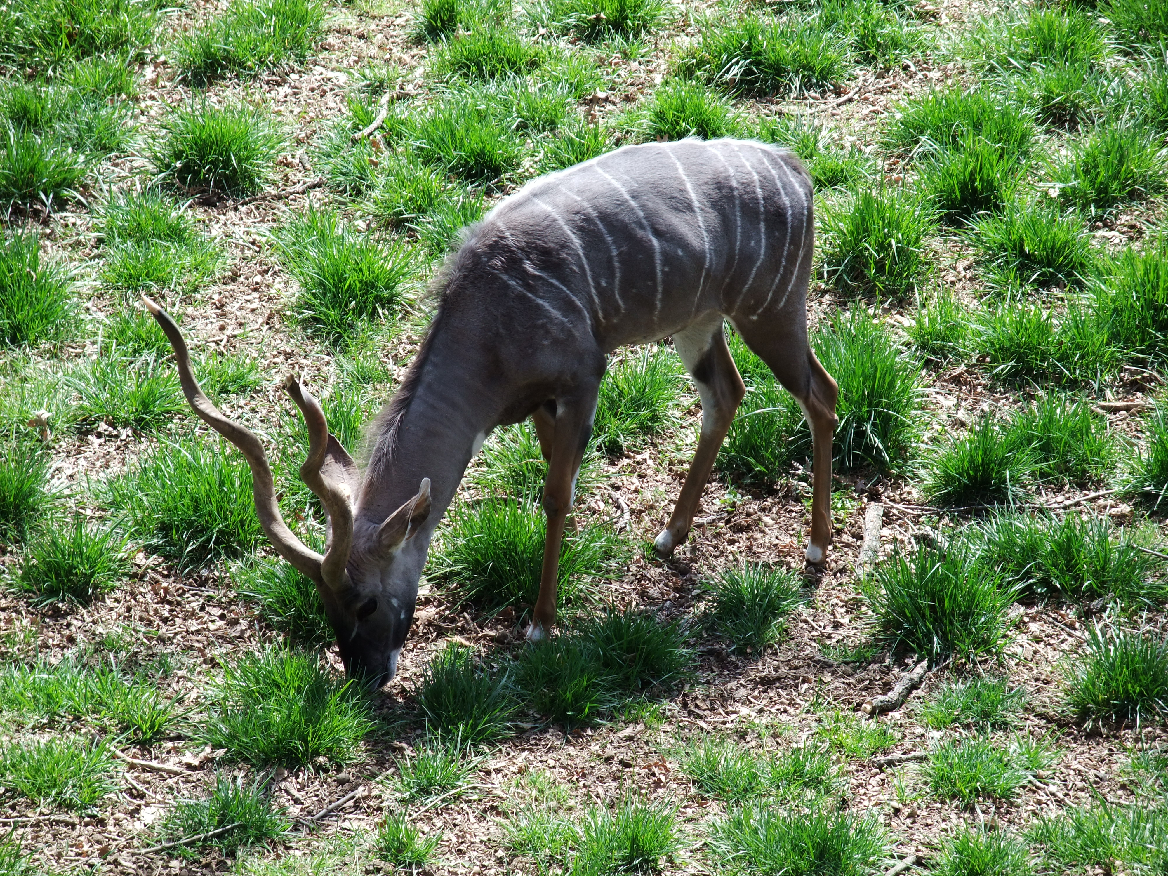 A photograph of Tragelaphus imberbis australis taken at the Maryland Zoo in Baltimore.